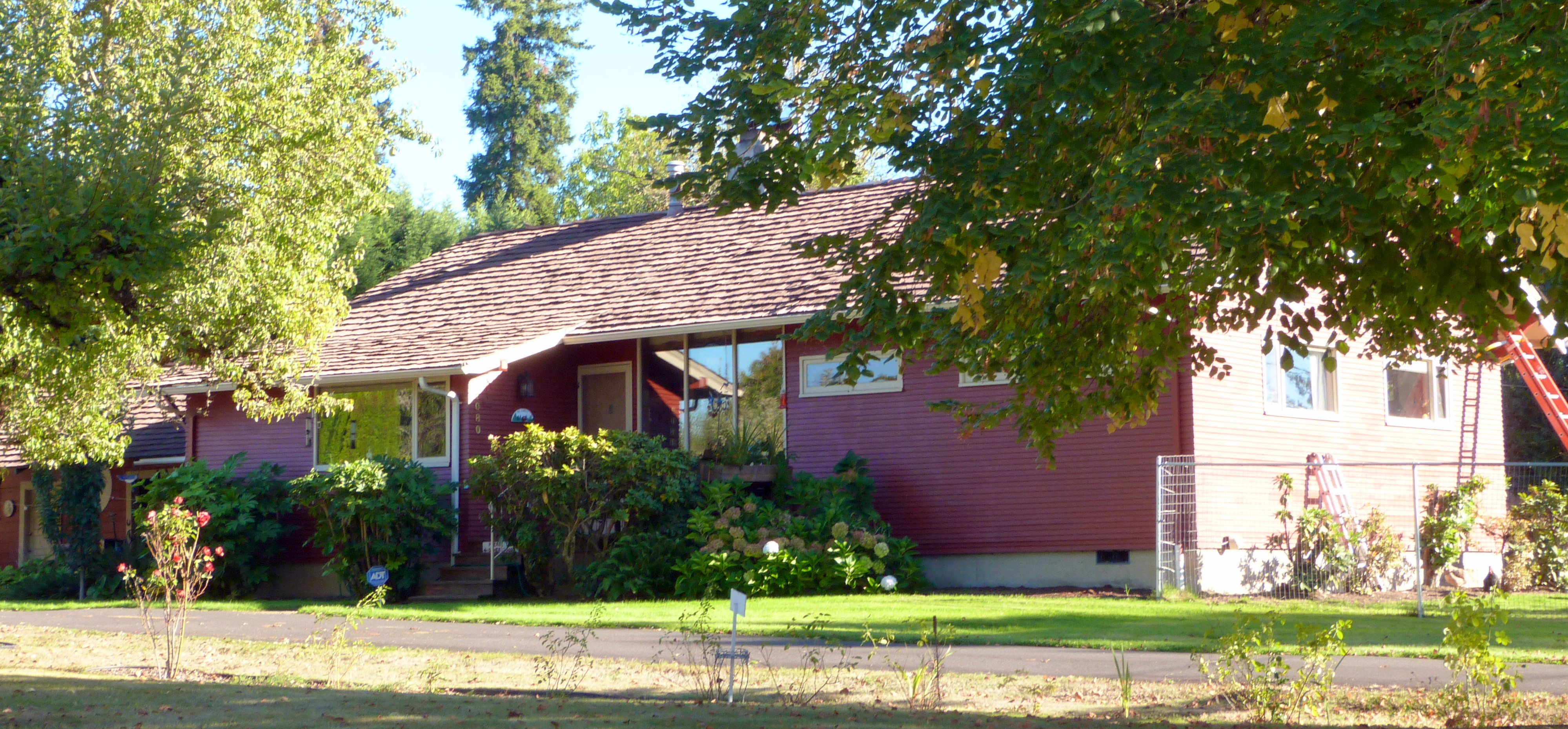 The historic Aloha Farmhouse (built ca. 1915, renovated 1944 and 1946), located at 1080 Southwest 197th Avenue in Aloha, near Beaverton, Oregon, United States, is listed on the US National Register of Historic Places.